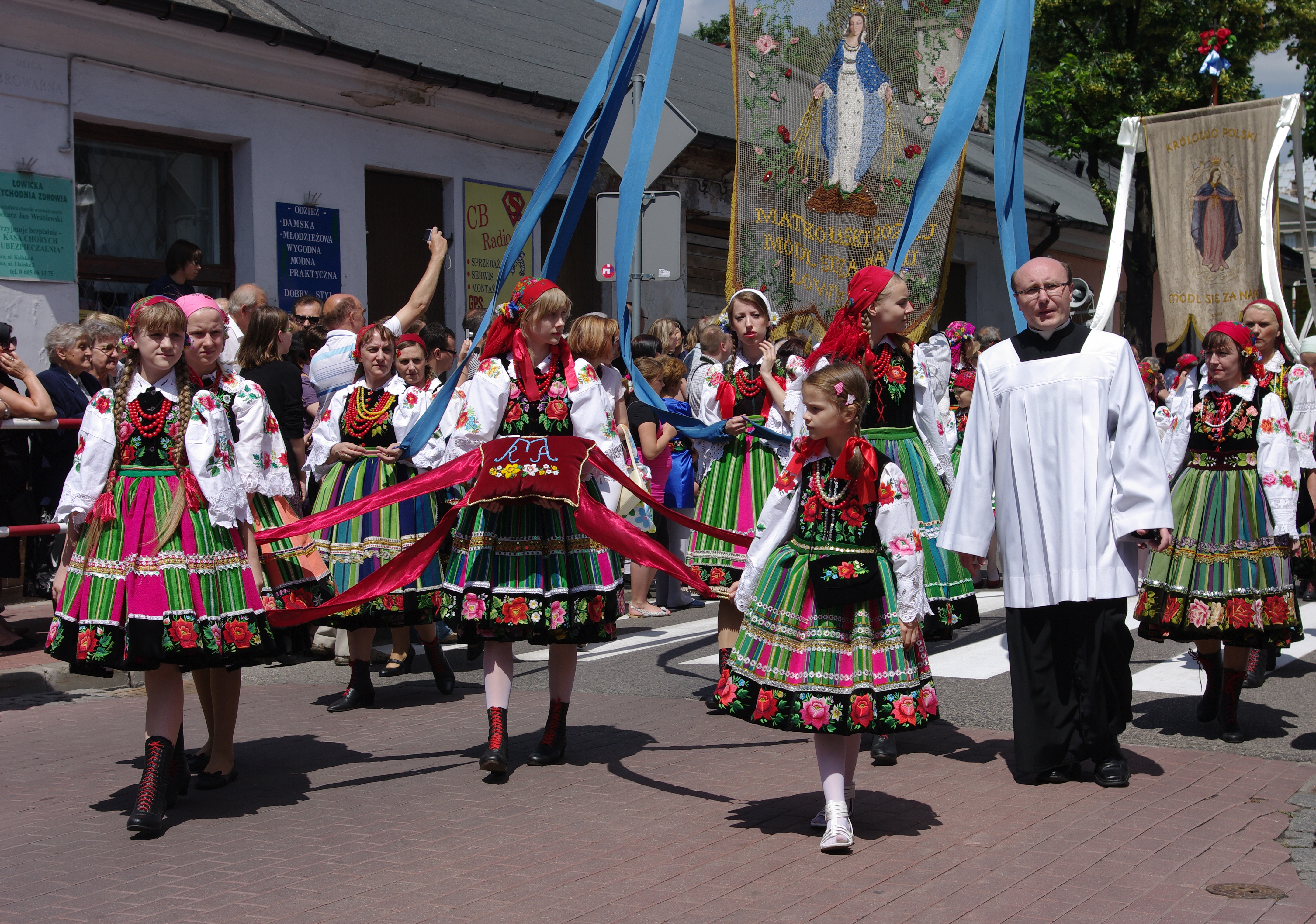 Corpus Christi in Łowicz, Poland